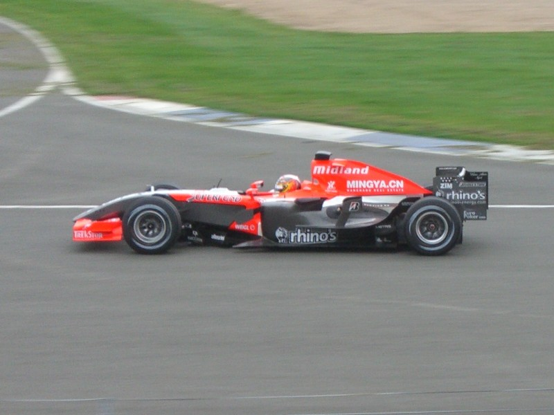 Photo of Tiago Monteiro (MF1-Toyota) at Silverstone Formula One tests